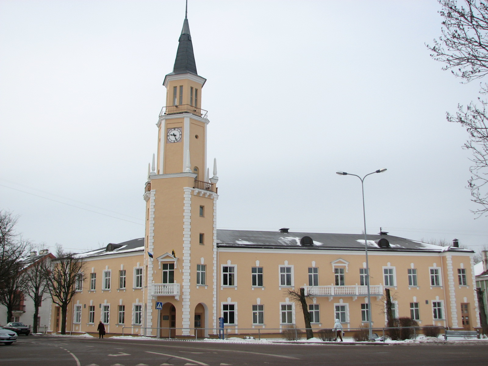 Sillamäe, Estonia. Building of the Sillamäe city government